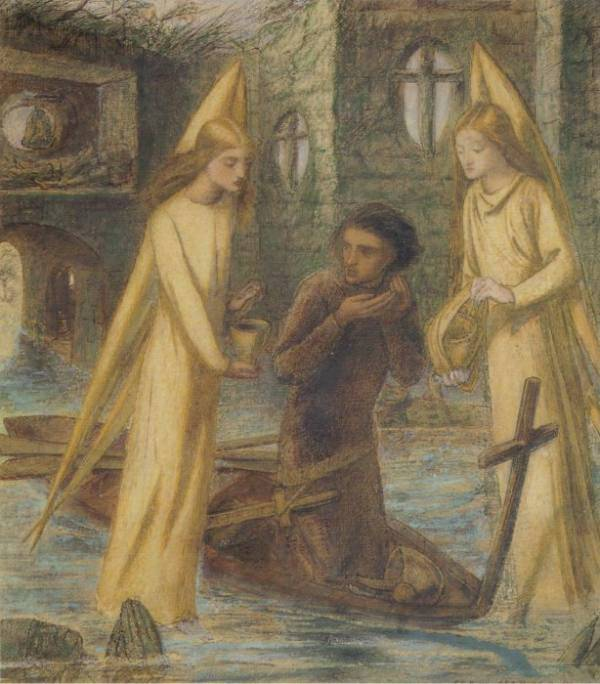 As the inscription on the watercolour shows, the picture is the joint production of DGR and Elizabeth Siddal. Grieve comments that "the composition was invented by Elizabeth Siddal and it was executed jointly by her and Rossetti" (Grieve, The Pre-Raphaelites, Tate 1984, 279). The subject is taken from Tennyson's poem "Sir Galahad", lines 37-48. Read more on Rossetti Archive.